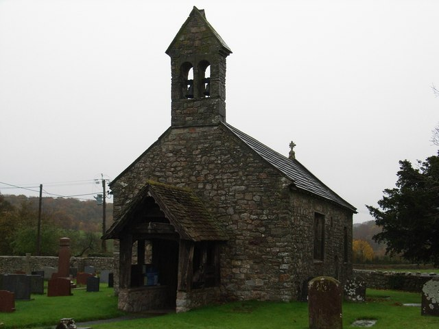 All Saints Church, Kemeys Commander